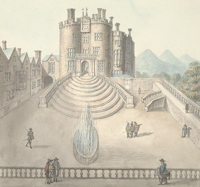 Powis Castle, 1794